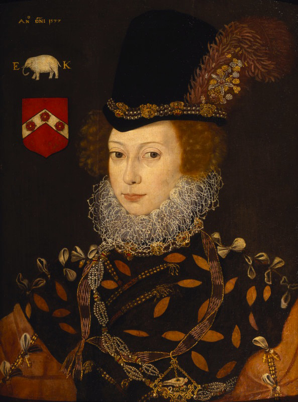 Portrait of Elizabeth Knollys, Lady Leighton (b. 15 June 1549, d. circa 1605), maid of honor early in the reign of Queen Elizabeth. Married, in 1578, Thomas Leighton, Governor of Jersey (b. 1535 - d. circa 1611)